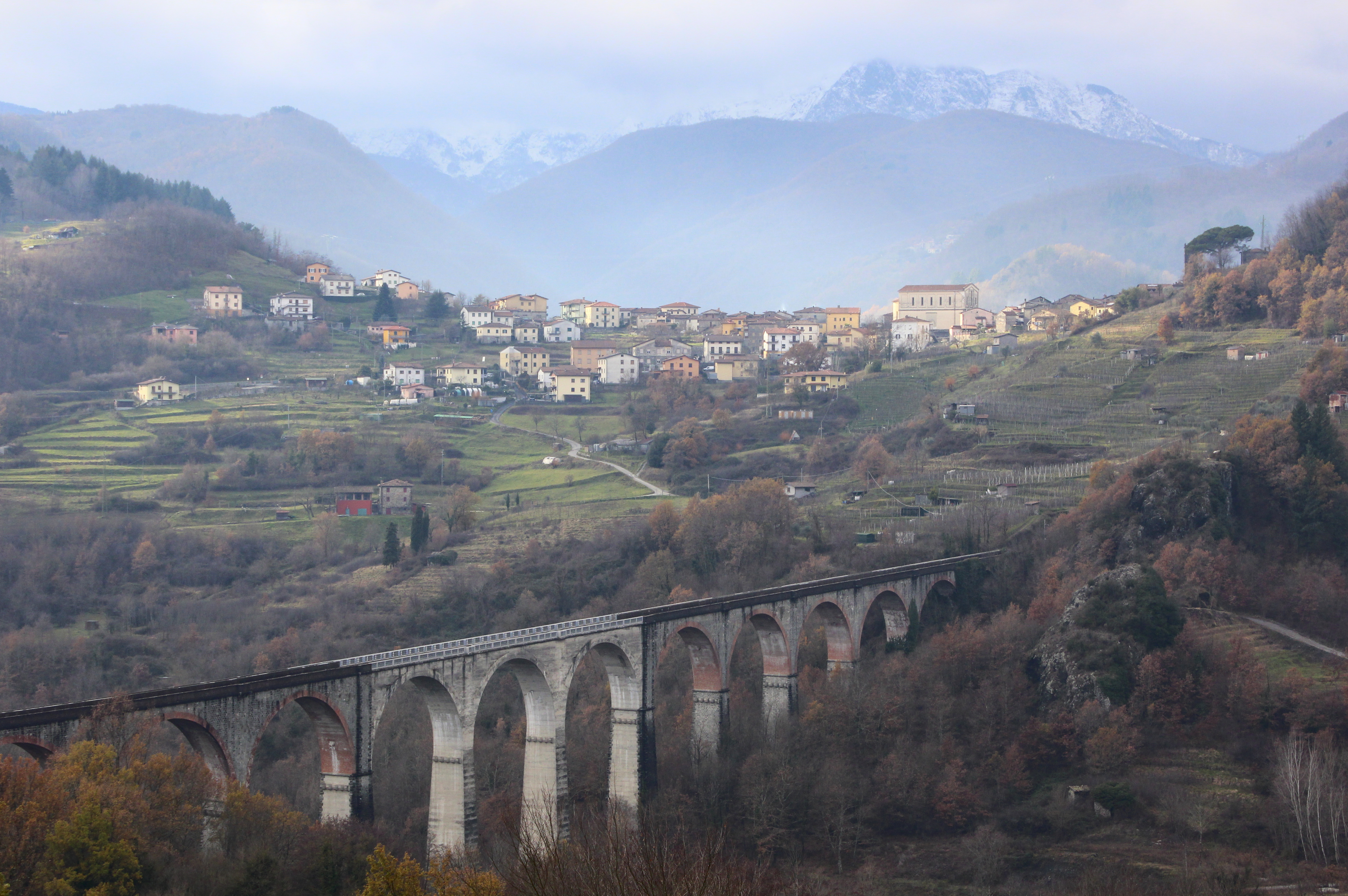 Panorama of Poggio, hamlet of Camporgiano, Garfagnana, Province of Lucca, Tuscany, Italy